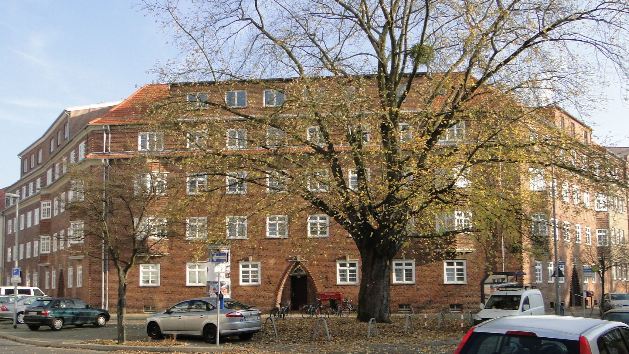 Edge Händelstraße/Robert-Koch-Straße in Schwerin, Mecklenburg-Vorpommern, Germany